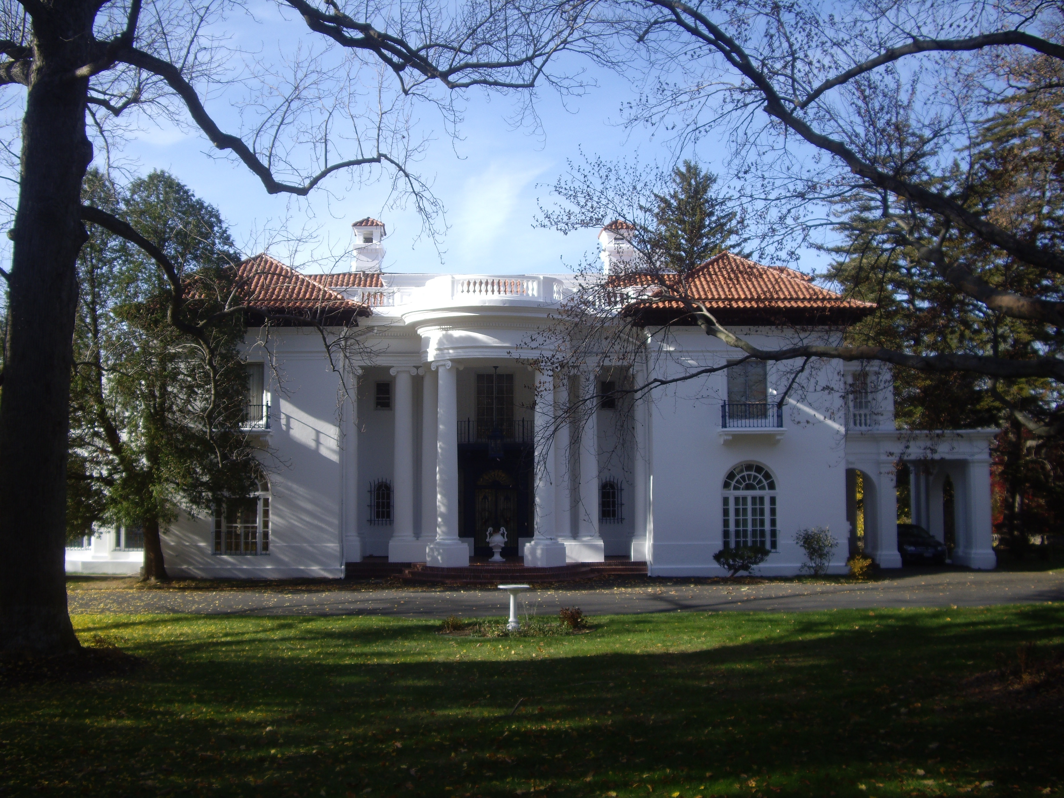 Villa Lewaro, Irvington, New York